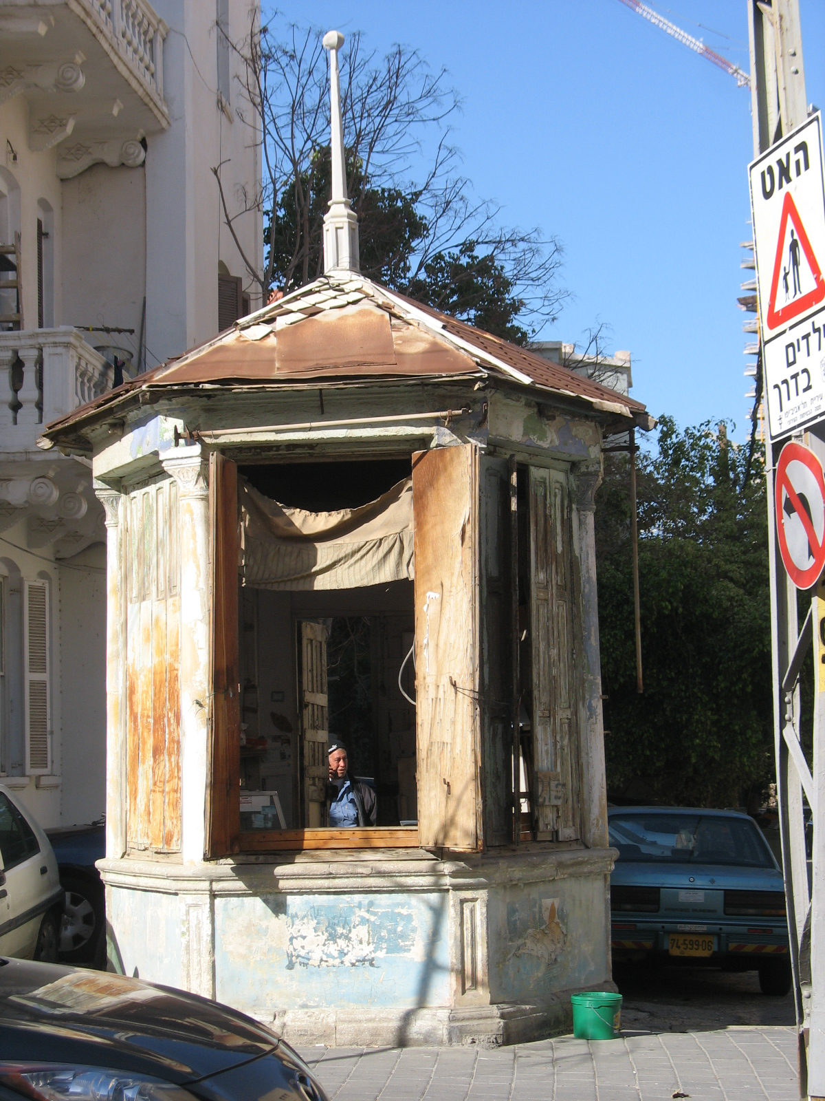 The second kiosk in Tel Aviv, Lilienblum Street